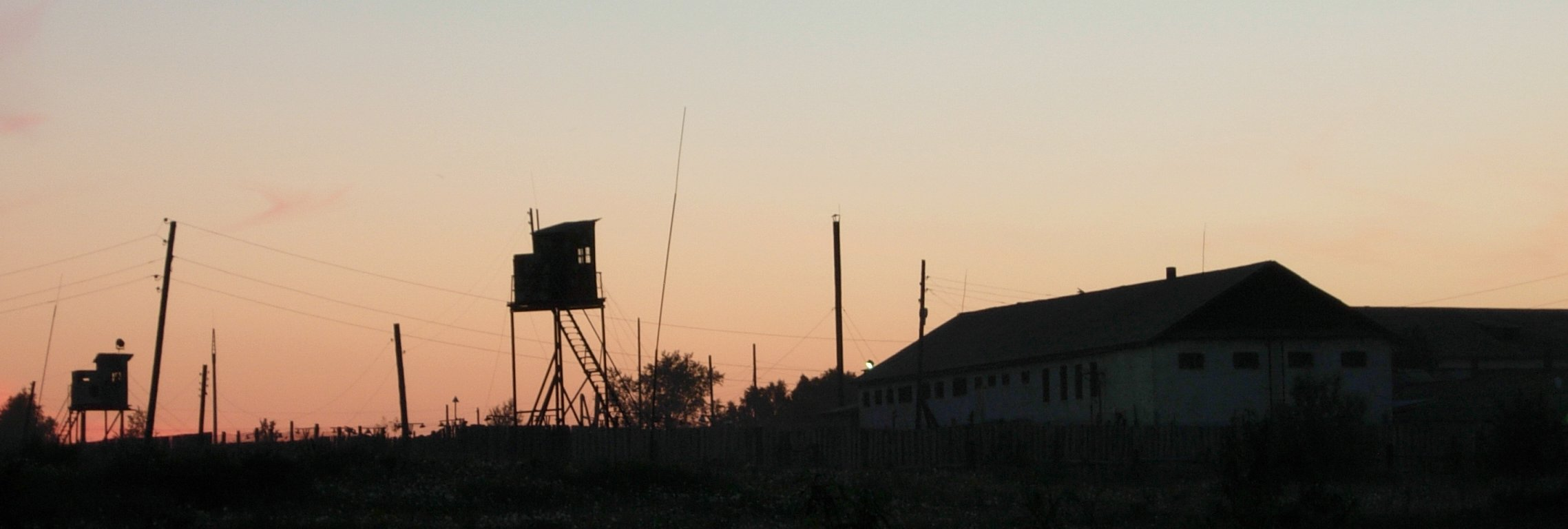 SevUralLag Colony